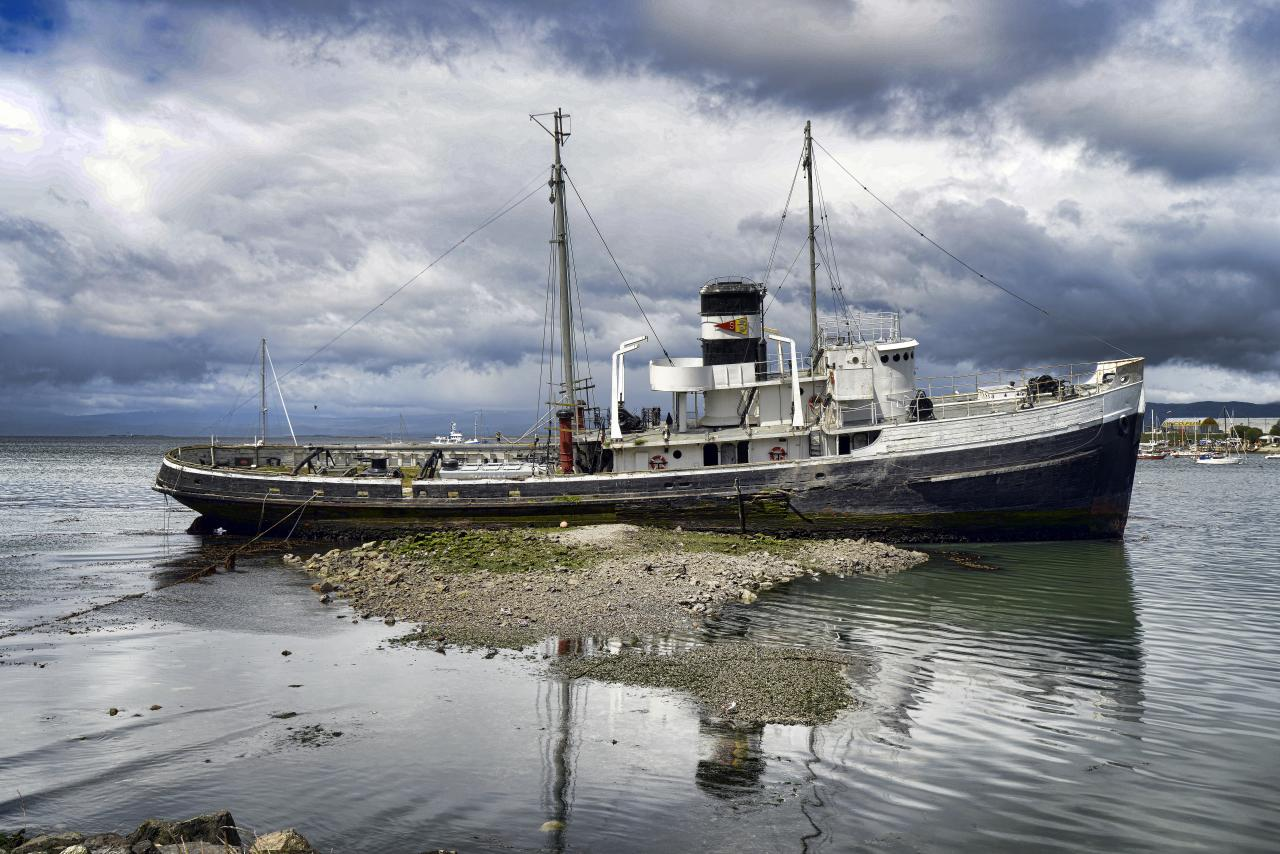 Wreck of the ST Christopher. Ushuaia is the last resting place for ships like her. She's lived many lives: first built in 1943 as a US Navy tug (ATR-1 Class), she was transferred to the Royal Navy (HMS Justice) and eventually sold to Leopoldo Simoncini of Buenos Aires as the St. Christopher. She's been abandoned since 1957. Shot with a Nikon D800E, 17-35mm.